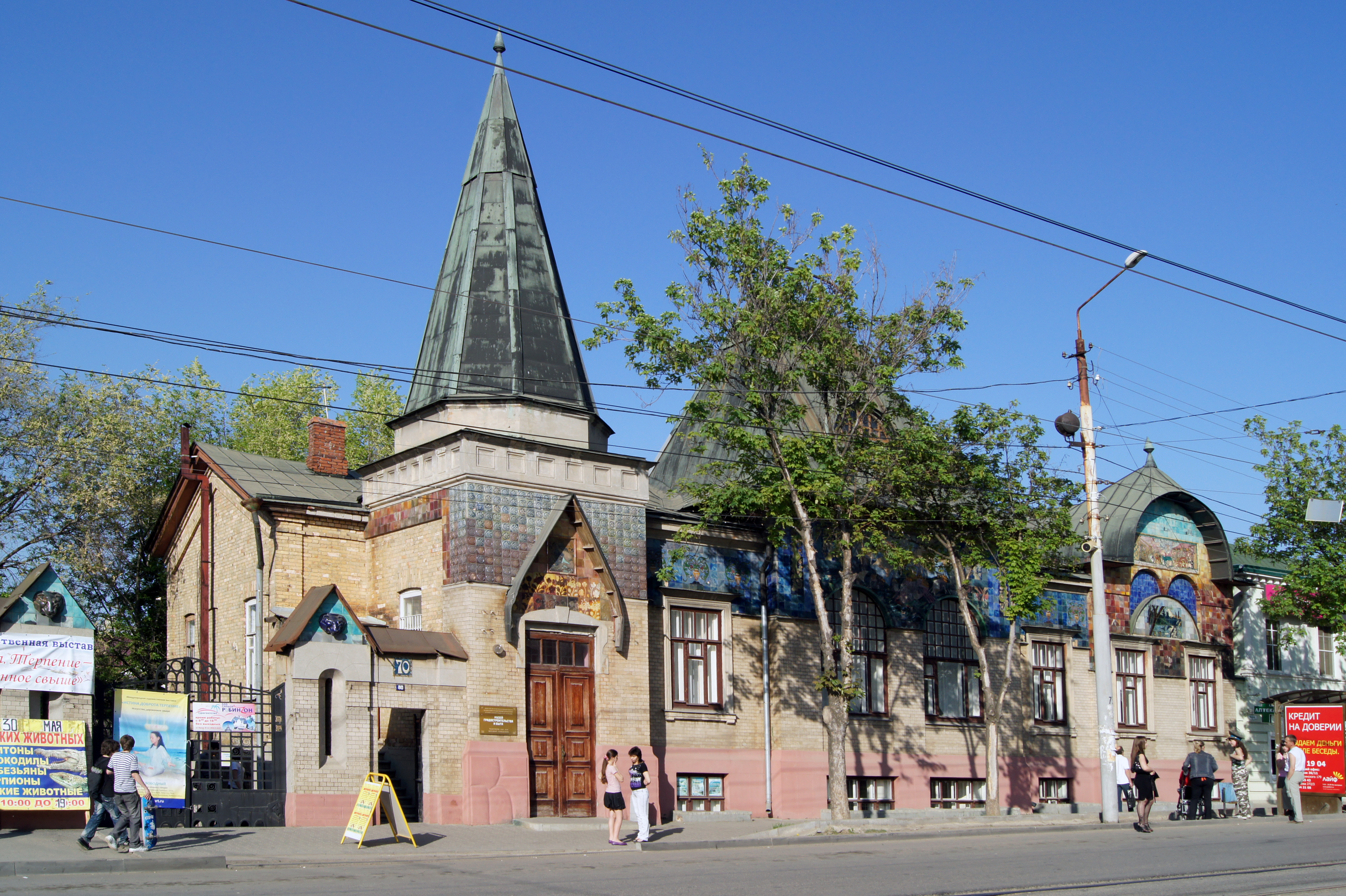 Sharonov House Taganrog